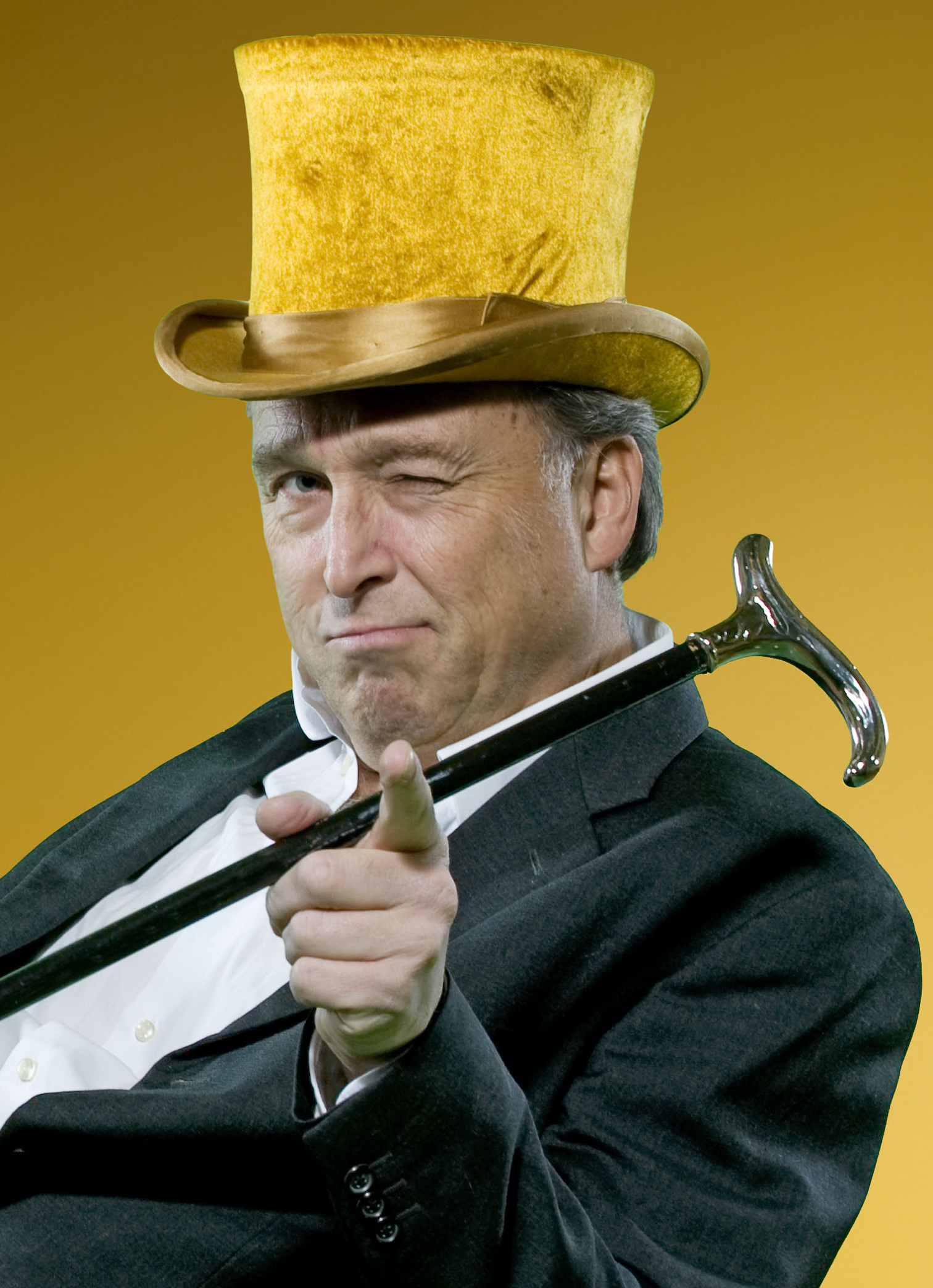 Swedish actor Philip Zandén in 2011